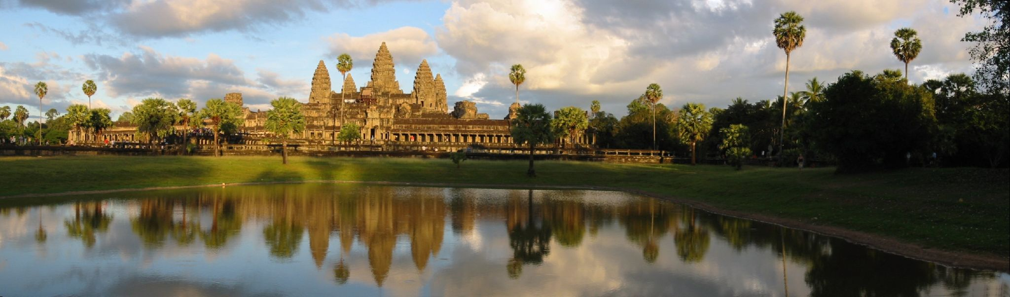 An evening sunset at Angkor Wat in November 2002 Cream of the Crop: Most Favorited